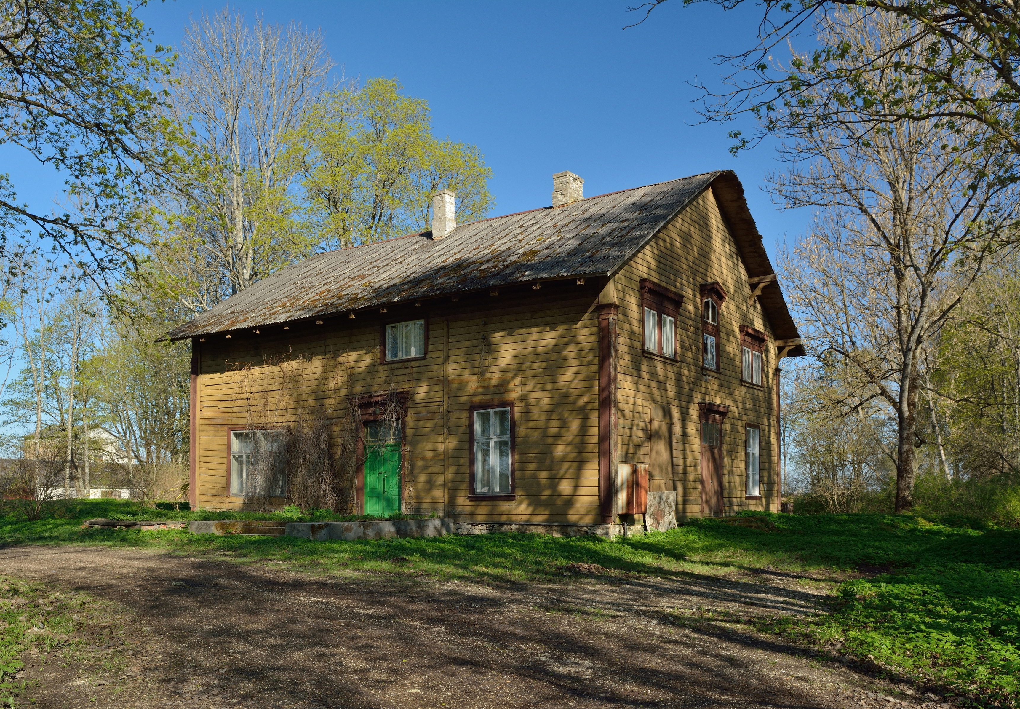 Partly remained Linnape manor main building